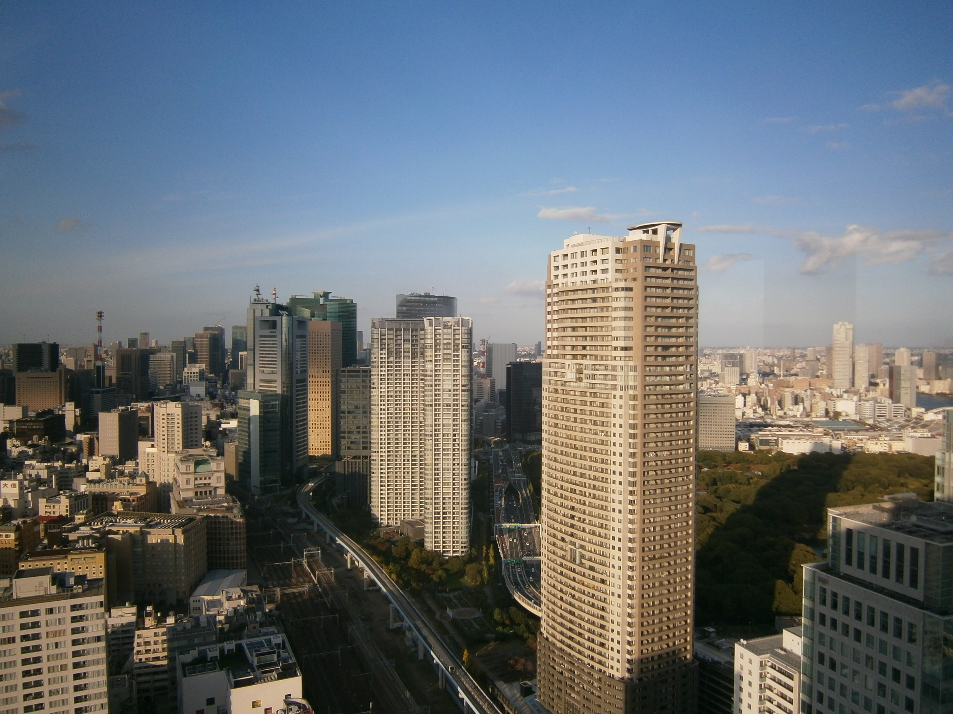 2 Chome Hamamatsuchō, Minato-ku, Tōkyō-to 105-0013, Japan